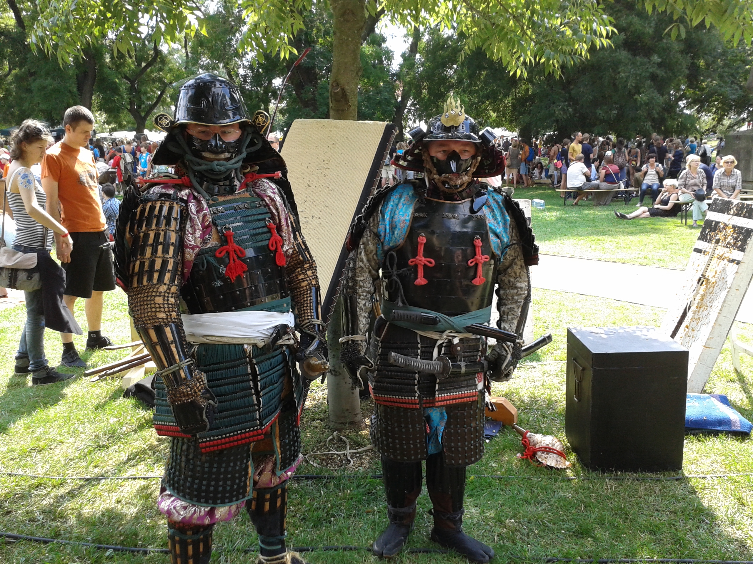 Illustrative photo. Prague, Vyšehrad, August 23, 2015. The seventh edition of Čajomírfest. Two members of the group (probably named Gorin from the Czech town Strakonice dealing with the japanese styles of Iaido and Kendo) in full samurai armor, probably from the Sengoku period Džidai (the period of Warring clans).